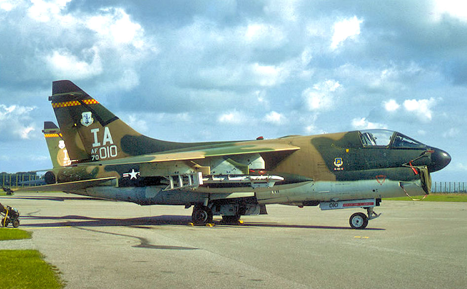 124th Tactical Fighter Squadron A-7D 70-1010 Iowa ANG 1972: Delivered to 355th Tactical Fighter Wing/354th TFS, Davis-Monthan AFB, NV (c/n D-156) Transferred to 124th Tactical Fighter Squadron, IA Air National Guard, 1979 Transferred to 146th Tactical Fighter Squadron, PA Air National Guard, 1983 Transferred to AMARC as AE0025 May 15, 1991 Disposition:11-AUG-97 / To Fritz Enterprises, Taylor, MI. (Actually to HVF West yard, Tucson). Scrapped.